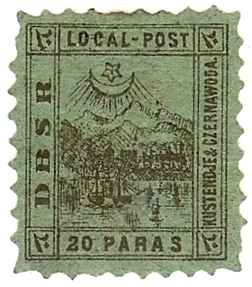 The Danube and Black Sea Railway Kustendje Harbour Company Limited, DBSR in short, was a British company active in Romania that established harbours at Constanta (Kustendje, for Austrian Lloyd) and Crenavoda (Czernawoda for Danube Steam Navigation Company) and built a railway between them which crossed the Dobrogea so that boats did not need to make the dangerous crossing of the Danube Delta. In 1865 the DBSR issued a single stamp for use on letters carried on the railway between the two ports. This stamp is normally found used in combination with the stamps of Austrian Italy. The stamp was printed by Kaiser in Vienna in black on shades of blue-green paper with punched out perforation giving 9, 11, 9, 12 points at top, right, bottom and left of stamp respectively.